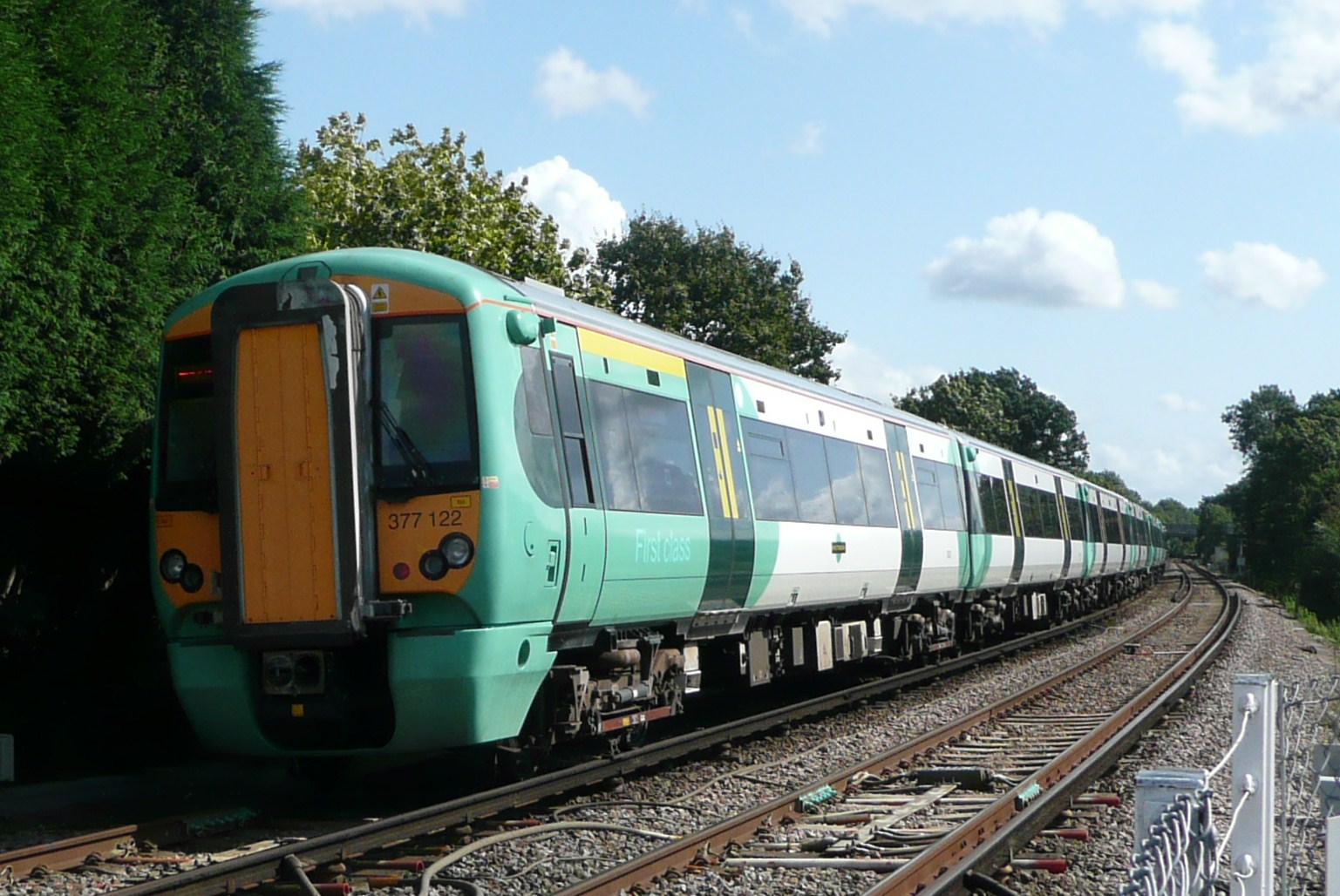 The back of Southern's 377 122 at it leaves Warnham station in West Sussex, as it heads for Horsham railway station.